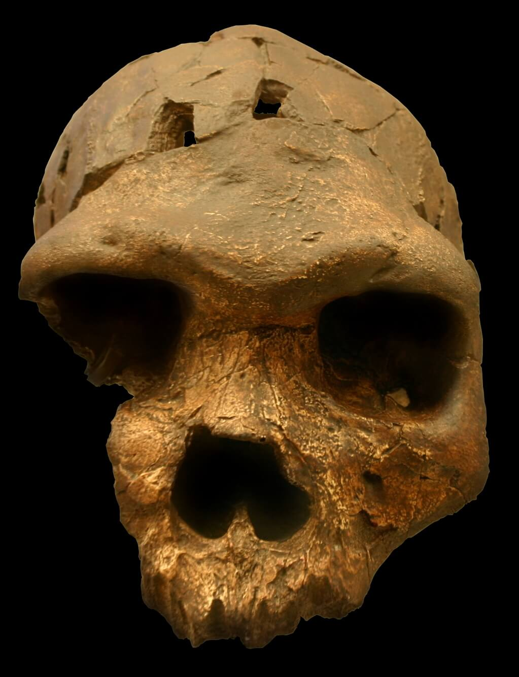 Bodo, Homo heidelbergensis. Taken at the David H. Koch Hall of Human Origins at the Smithsonian Natural History Museum.The caption next to the skull reads:"BodoMiddle Awash, EthiopiaAbout 600,000 years oldCast"